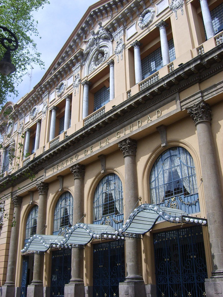 Facade of the Teatro de la Ciudad — located in the Historical Center of Mexico City, Mexico, D. F. The Neoclassical style building, with Category:Transparent canopy, was built in 1918.